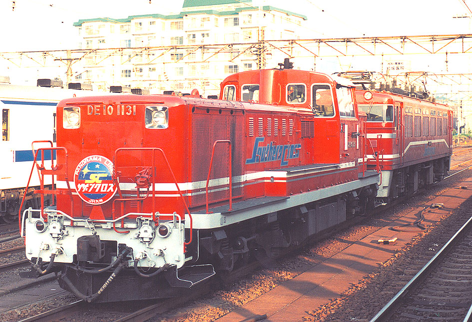 JR Kyushu DE10 1131 and ED76 78 in Panorama Liner Southern Cross colour